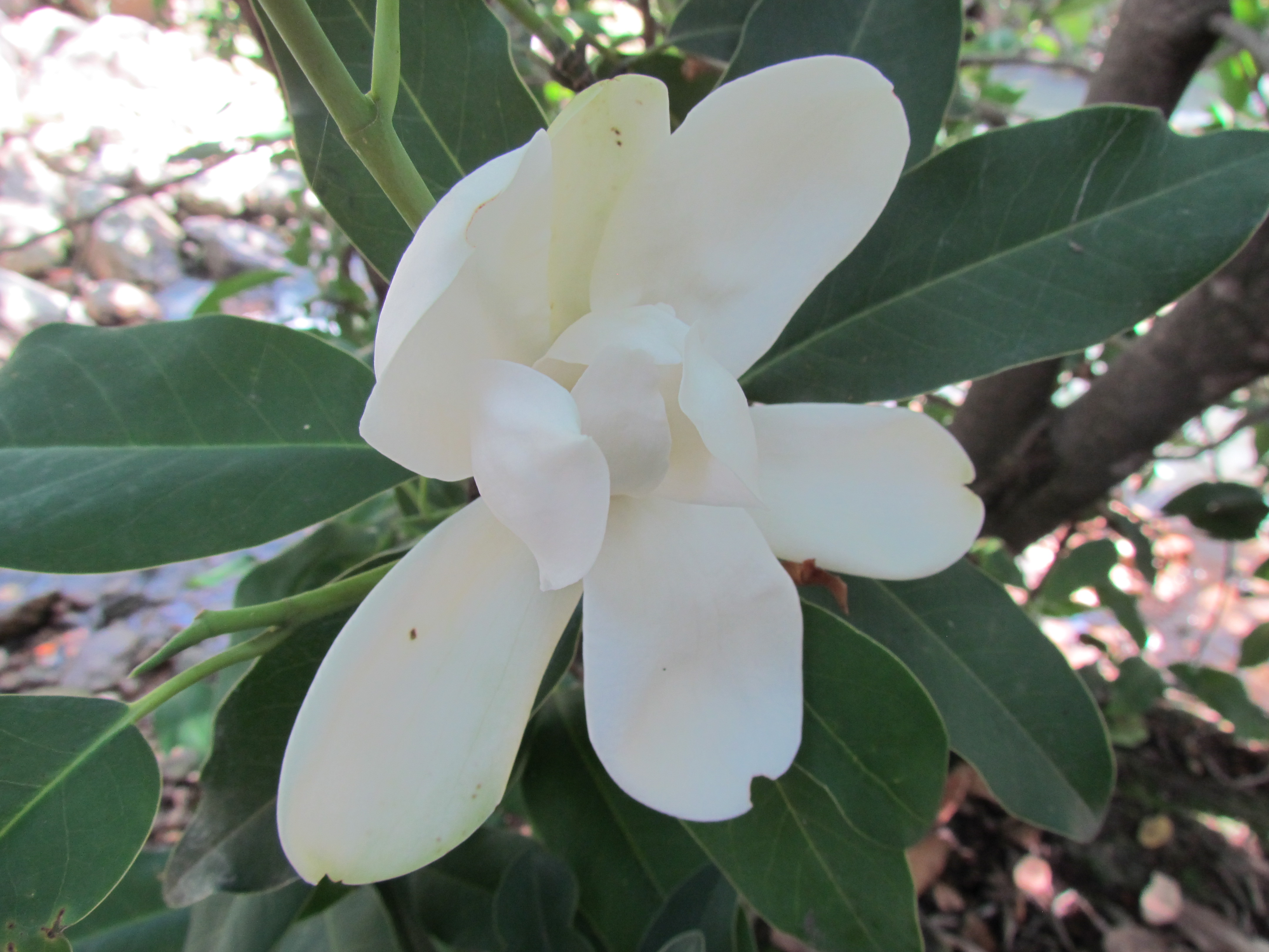 Flower